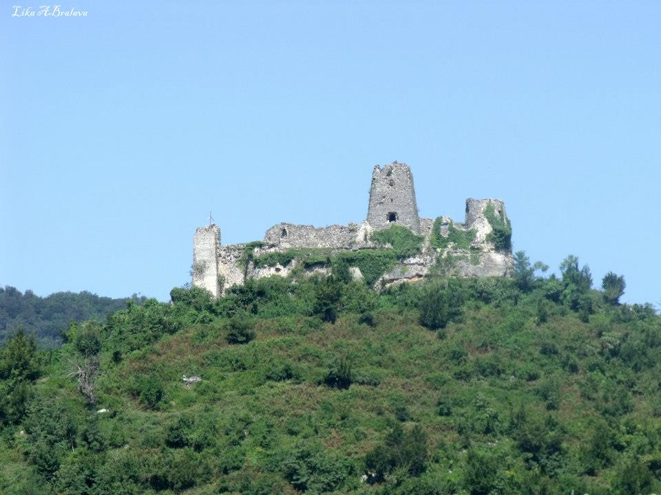 Shkhepi fortress in Senaki District